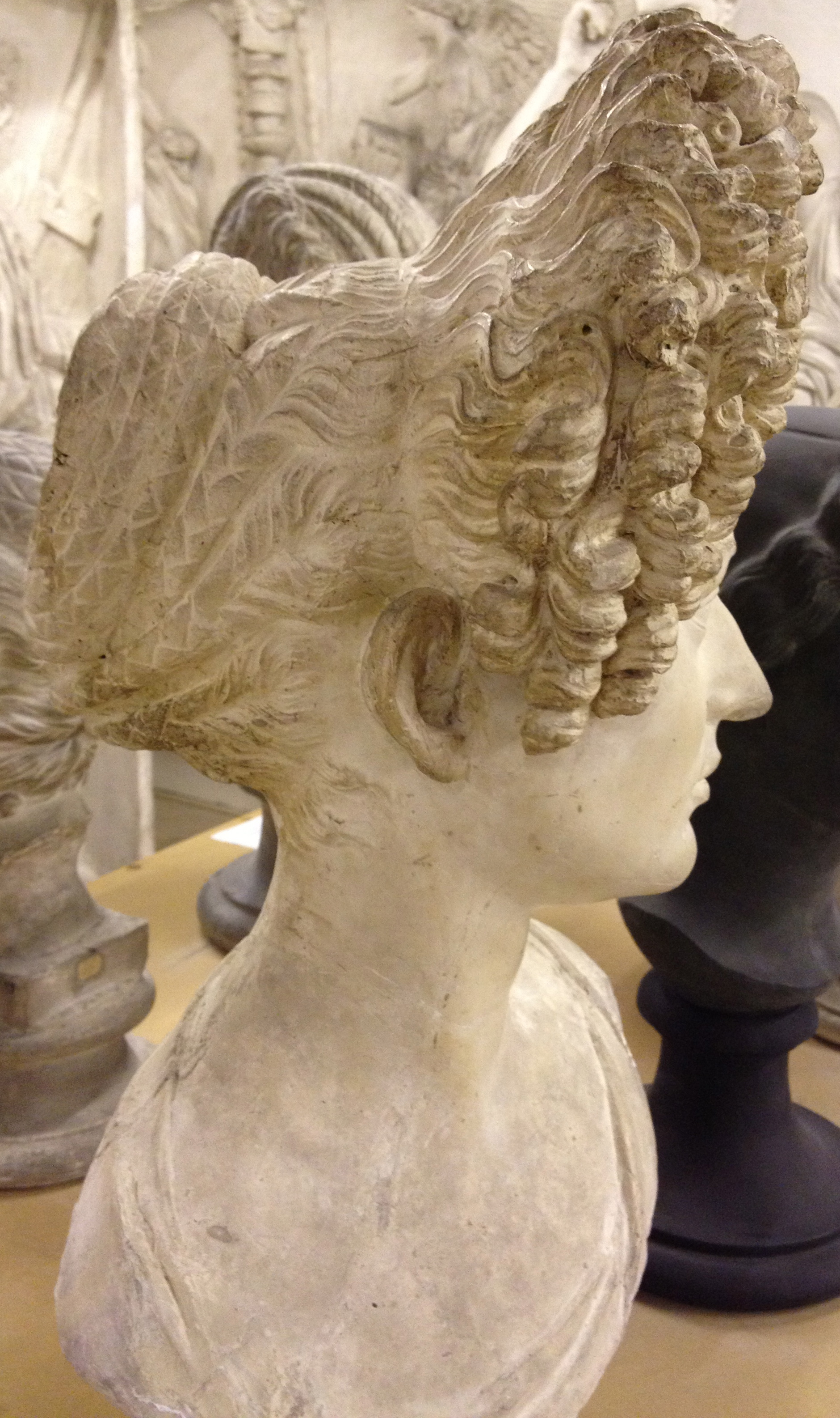 KAS 843 Portrait of a Roman woman (Vibia Matidia?) Roman, Flavian period Rome, Musei Capitolini View from right side Exhibit af Roman divas and their hair at the Royal Cast Collection, Copenhagen, Denmark Udstilling af romerske divaer og deres hår på Den Kongelige Afstøbningssamling, København, Danmark